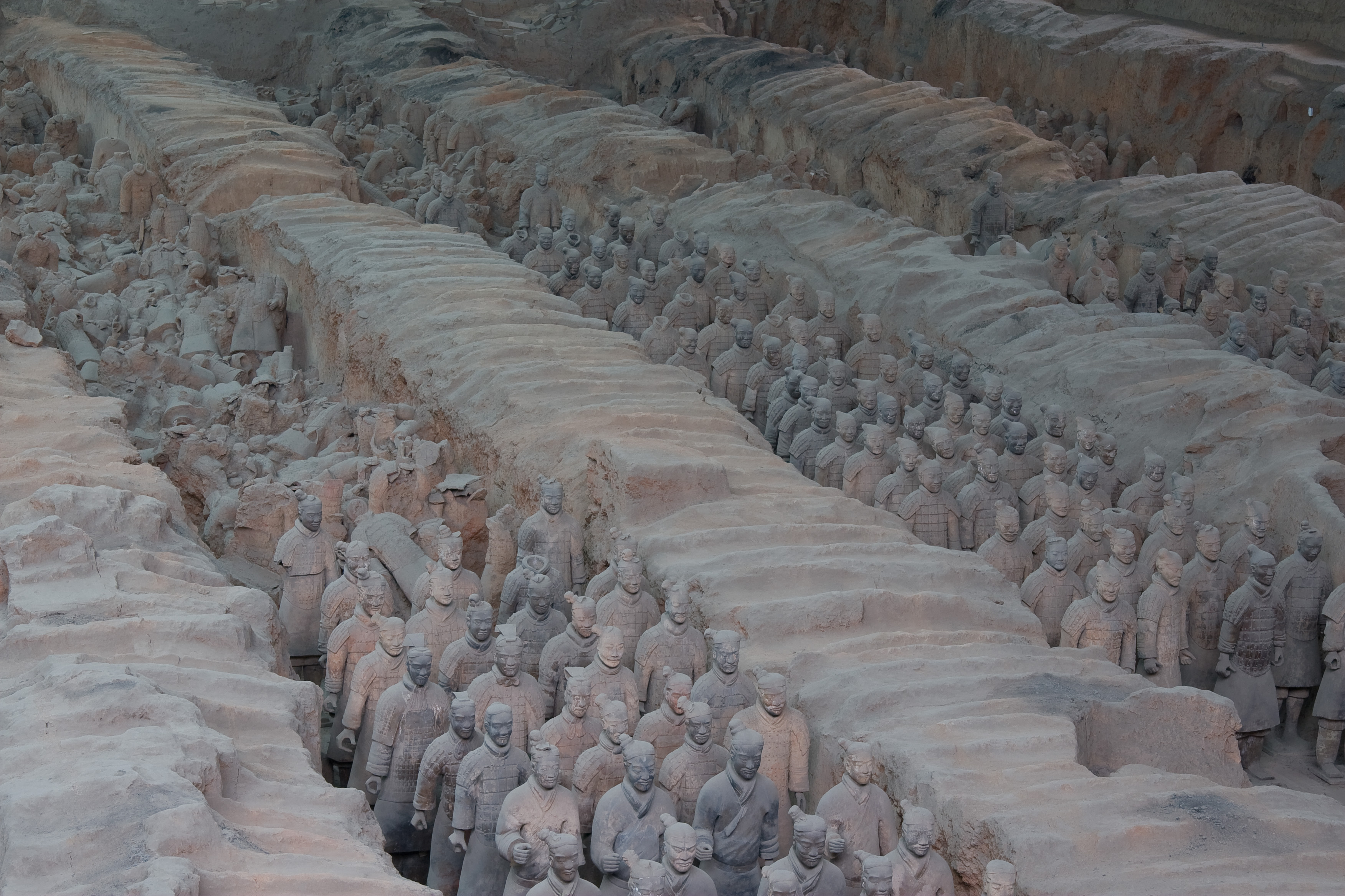 Terracotta Army Pit 1 - in Xi'an, China